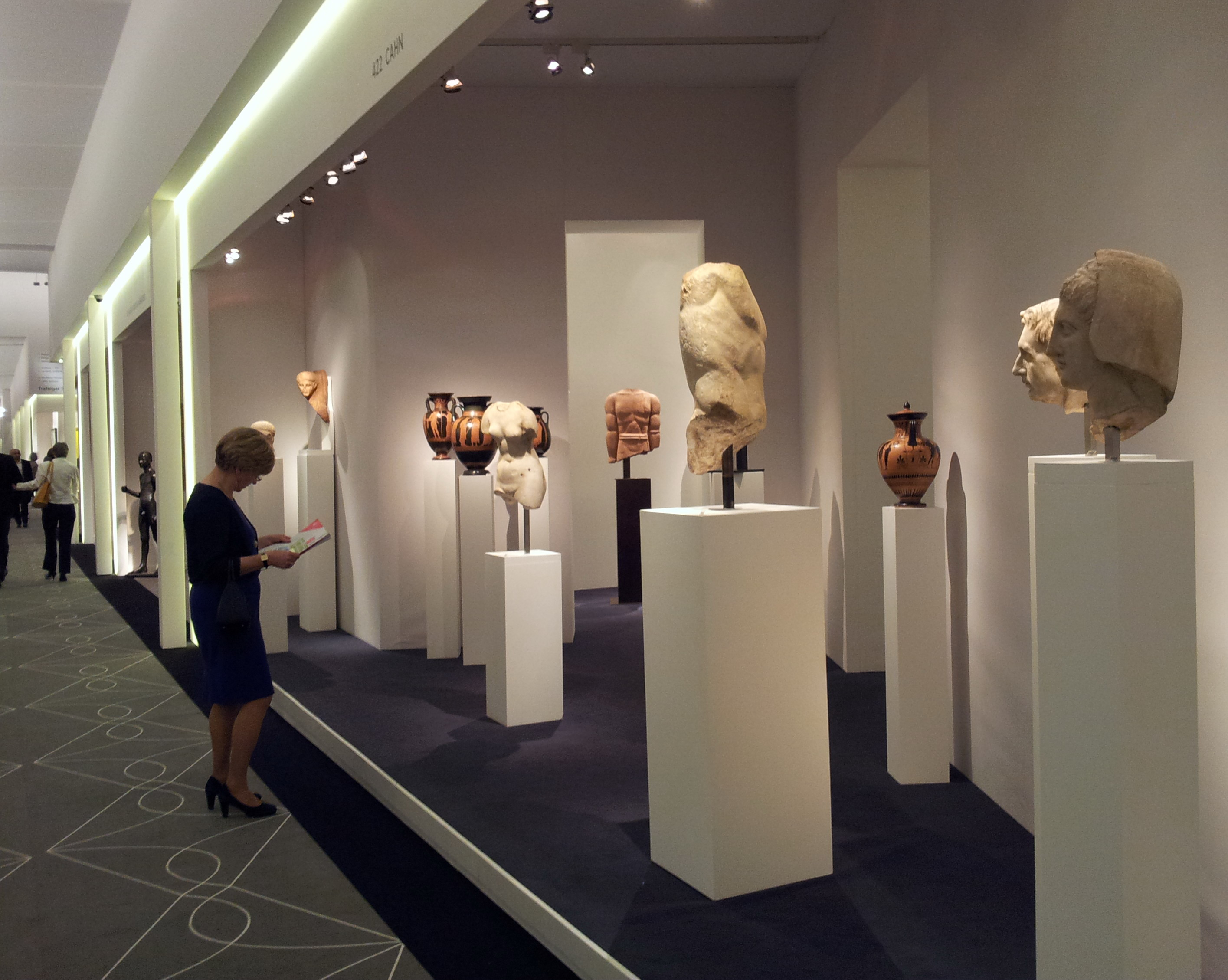 Maastricht, the Netherlands. View of TEFAF 2014, The European Fine Art Fair. Here: Ancient Greek and Roman sculptures for sale.